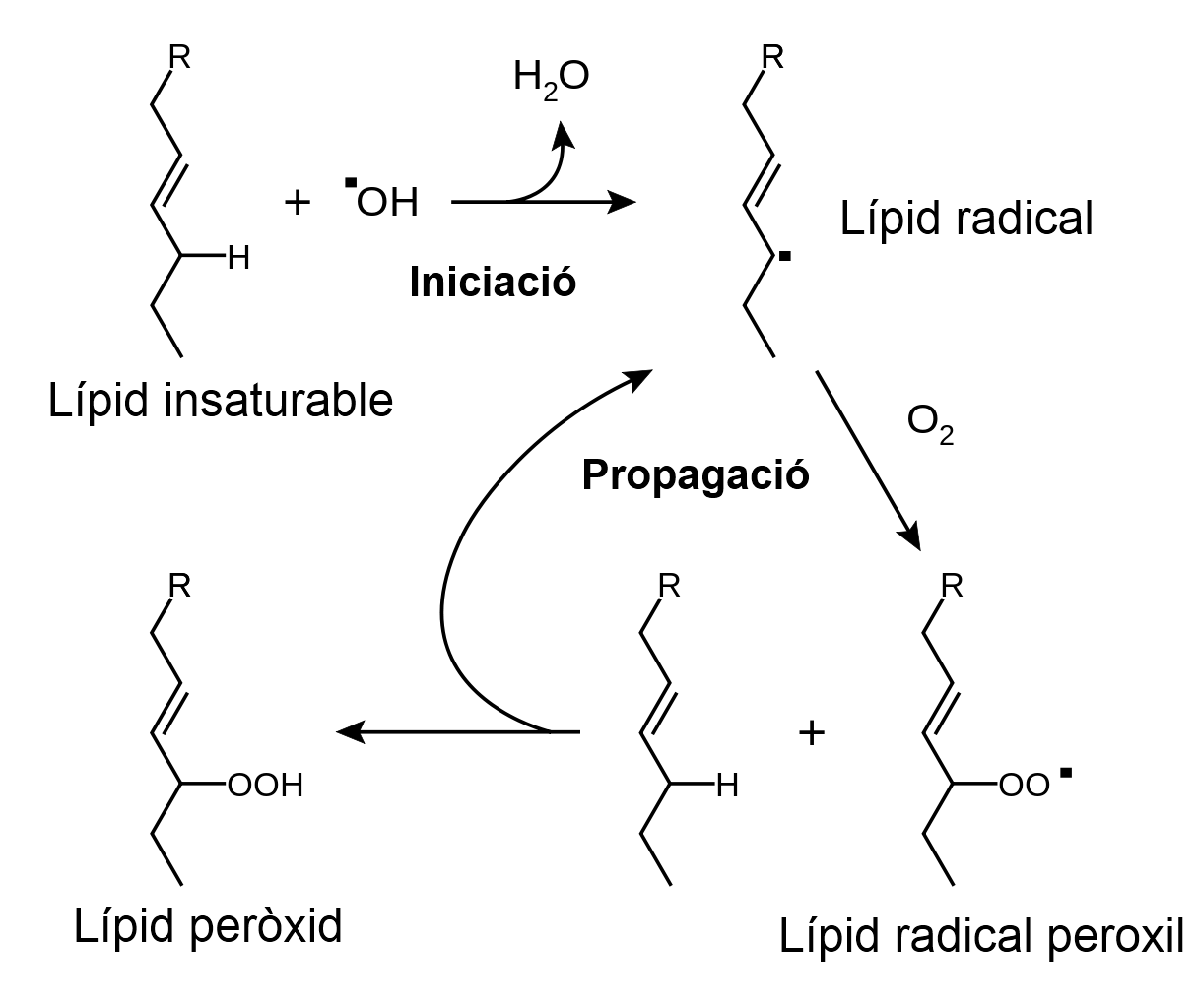 Radical chain reaction mechanism of lipid peroxidation diagram in Catalan.